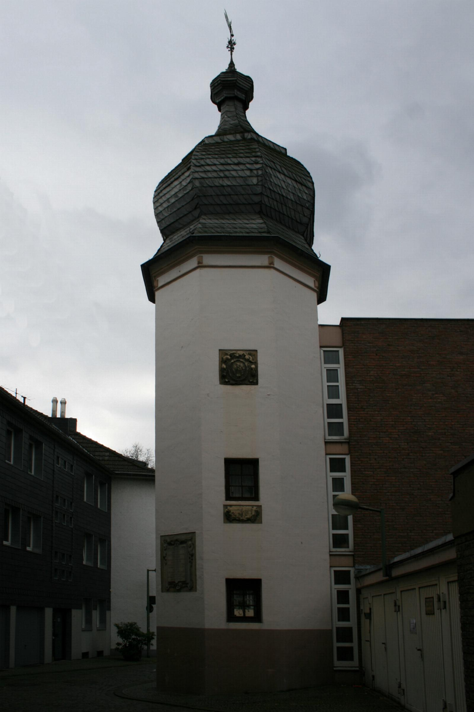 This is a photograph of an architectural monument.